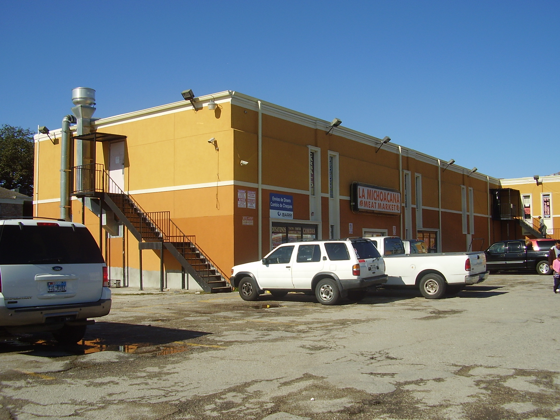 La Michoacana Meat Market store #7 - 6906 Atwell Drive, Houston , TX, 77081